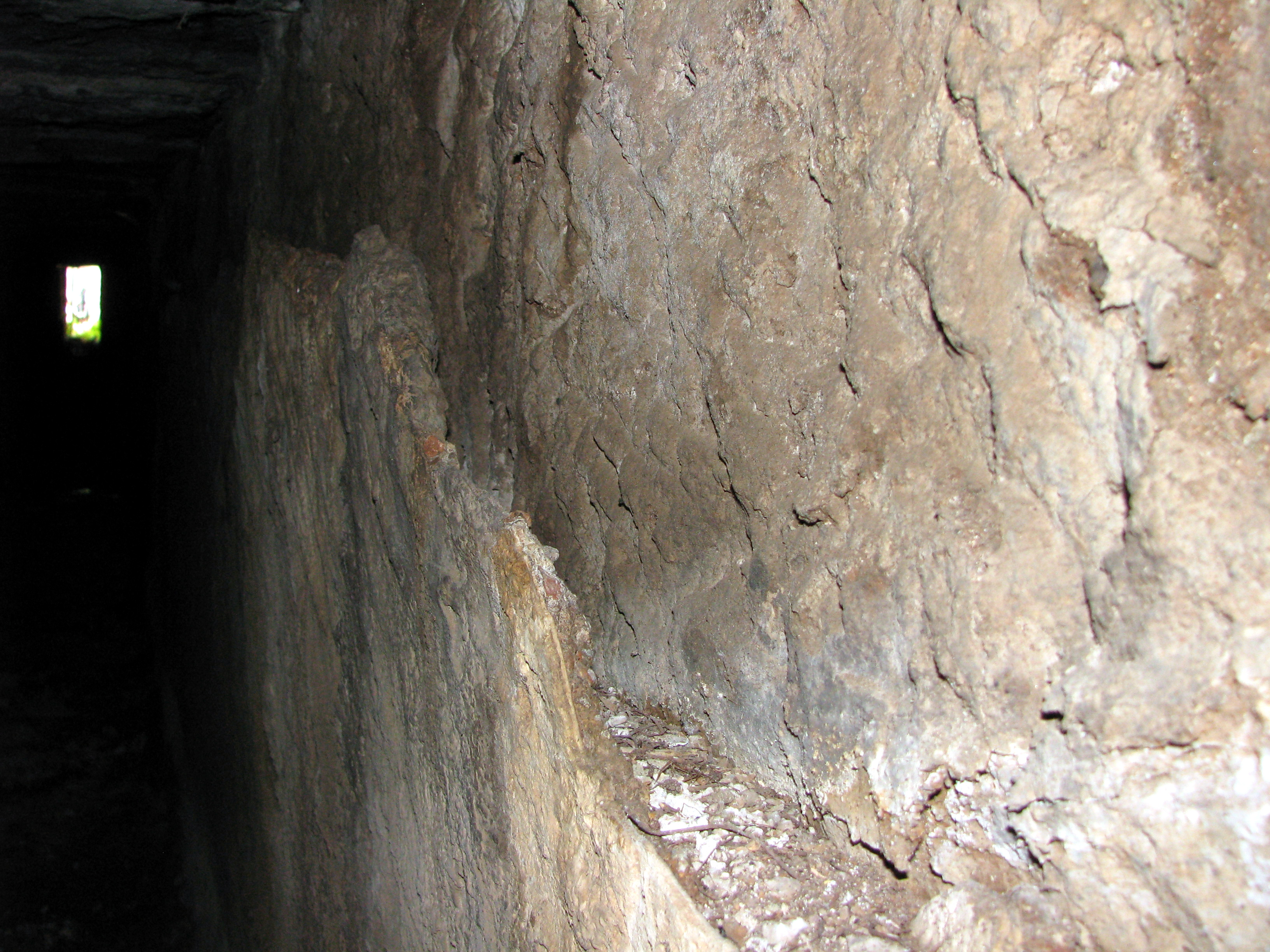 Inside of the Aqua Marcia (140 BC), close up on the roman waterproof mortar lining the inner walls. Height ca. 1,3m. Location near Romavecchia, Via Lemonia, Rome, Italy